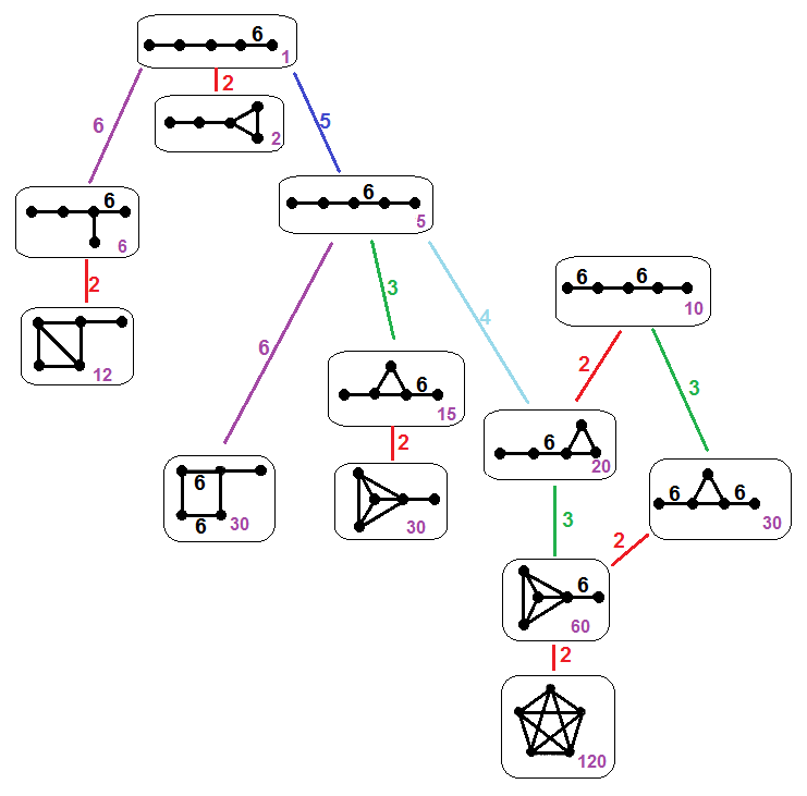 Coxeter-Dynkin diagram subgroup tree for Lorentzian groups from [6,3,3,3] and [6,3,6,3]